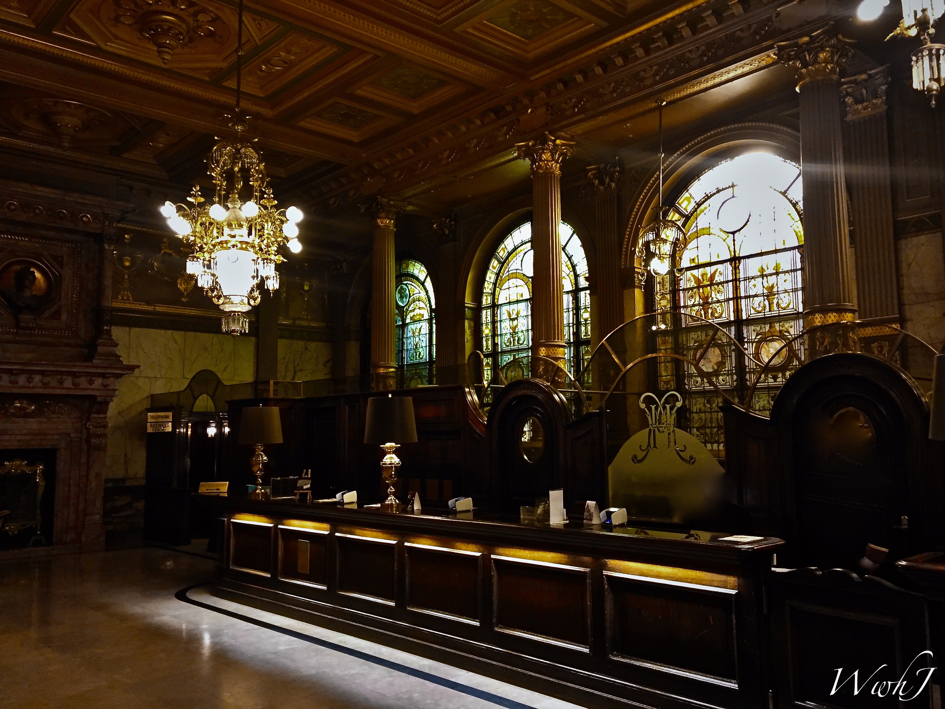 Métropole Brussels Lobby